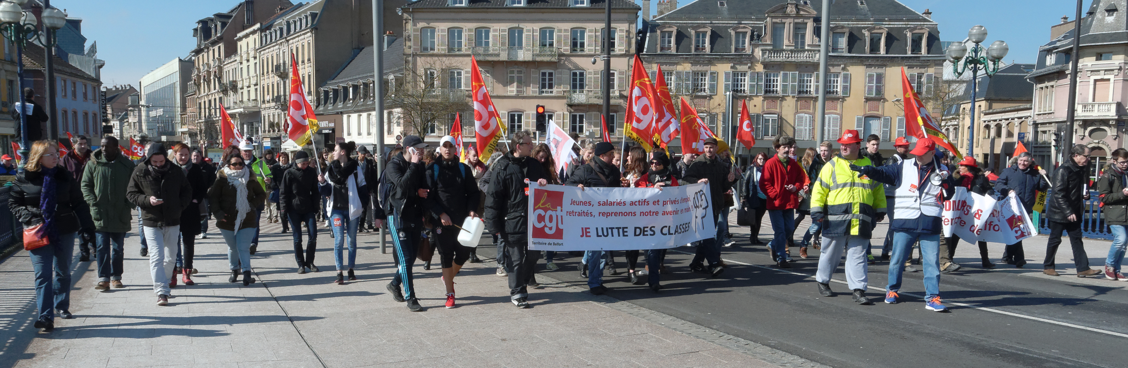 Personality rights warningAlthough this work is freely licensed or in the public domain, the person(s) shown may have rights that legally restrict certain re-uses unless those depicted consent to such uses. In these cases, a model release or other evidence of consent could protect you from infringement claims.